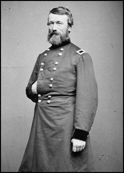 photo of Nathaniel James Jackson (1818-1892)